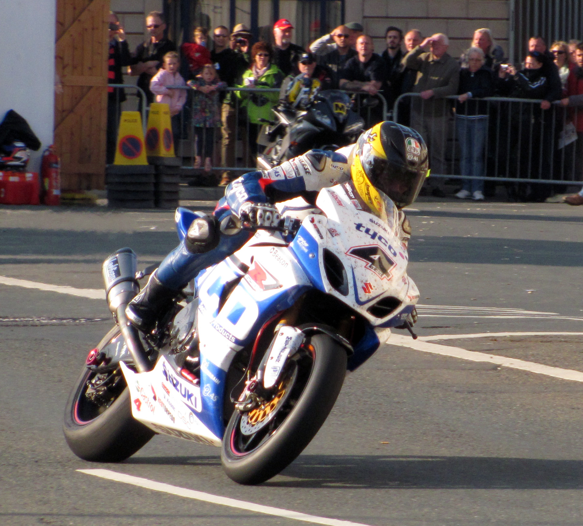 Guy Martin riding a 1000cc Suzuki during the evening practice in Parliament Square, Ramsey, Isle of Man.